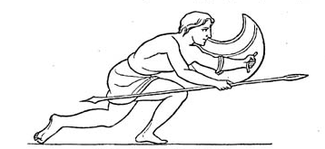 Drawing of a peltast